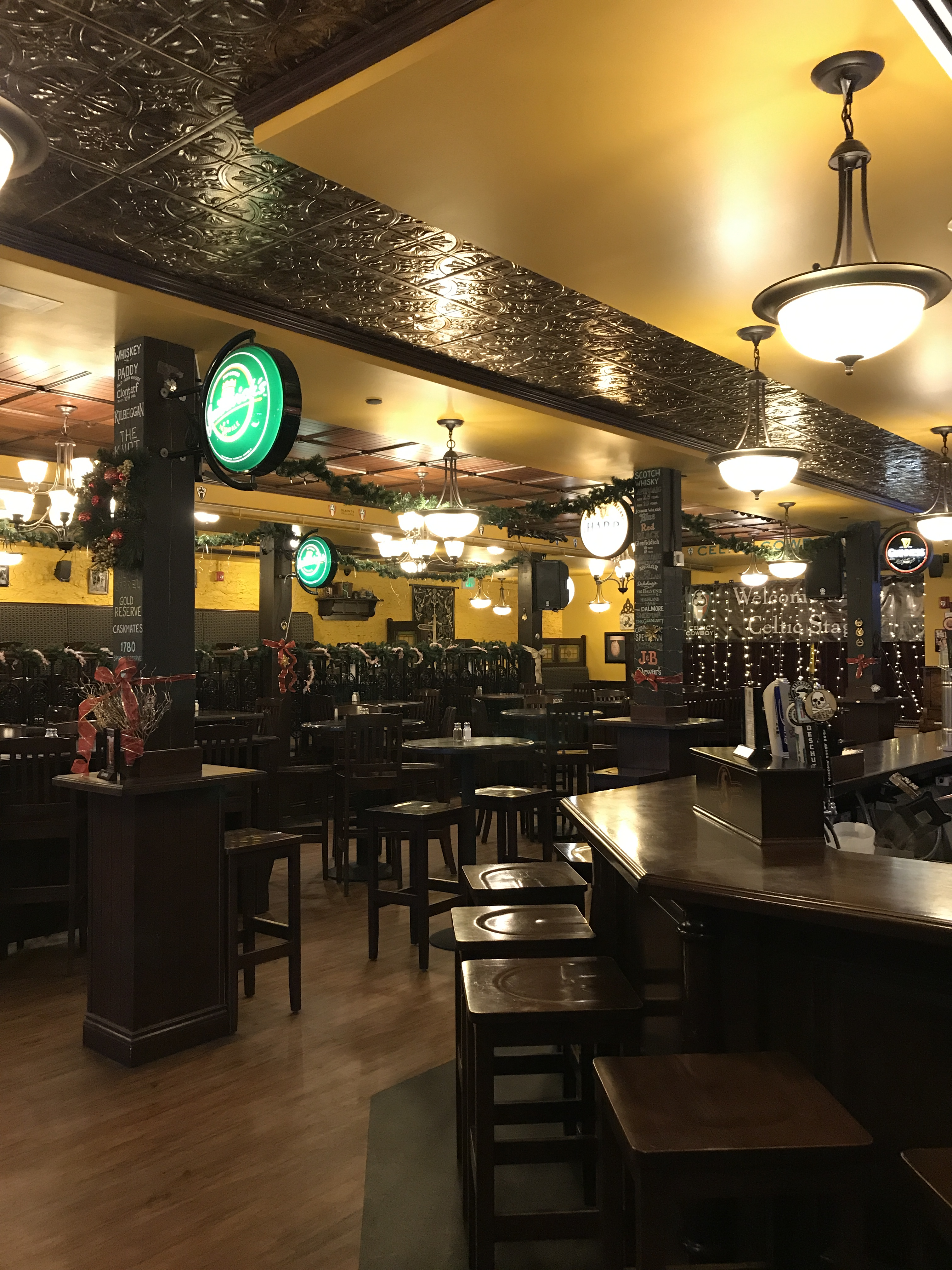 Celtic Cowboy Pub and Restaurant Arvon Block, 114-116 First Avenue South, Great Falls, Montana